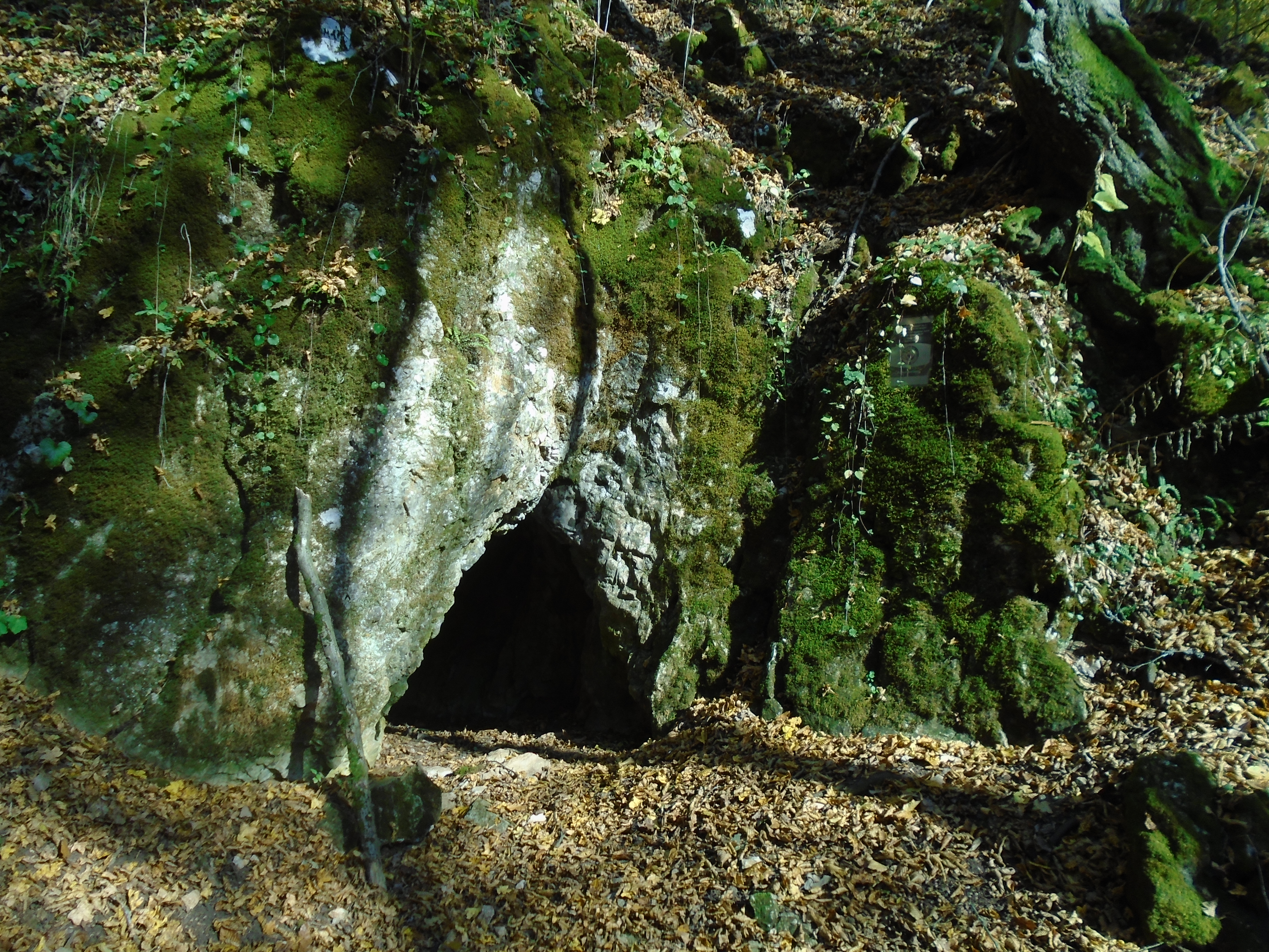 Entrance of Danca Cave.